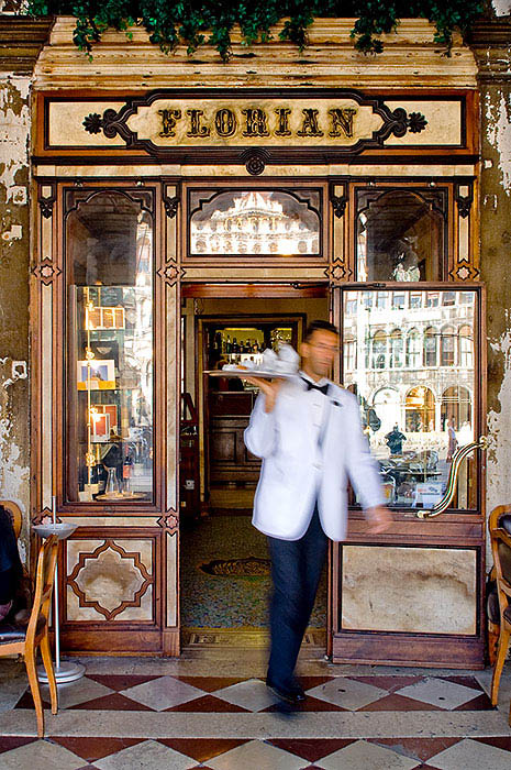 Caffè Florian entrance